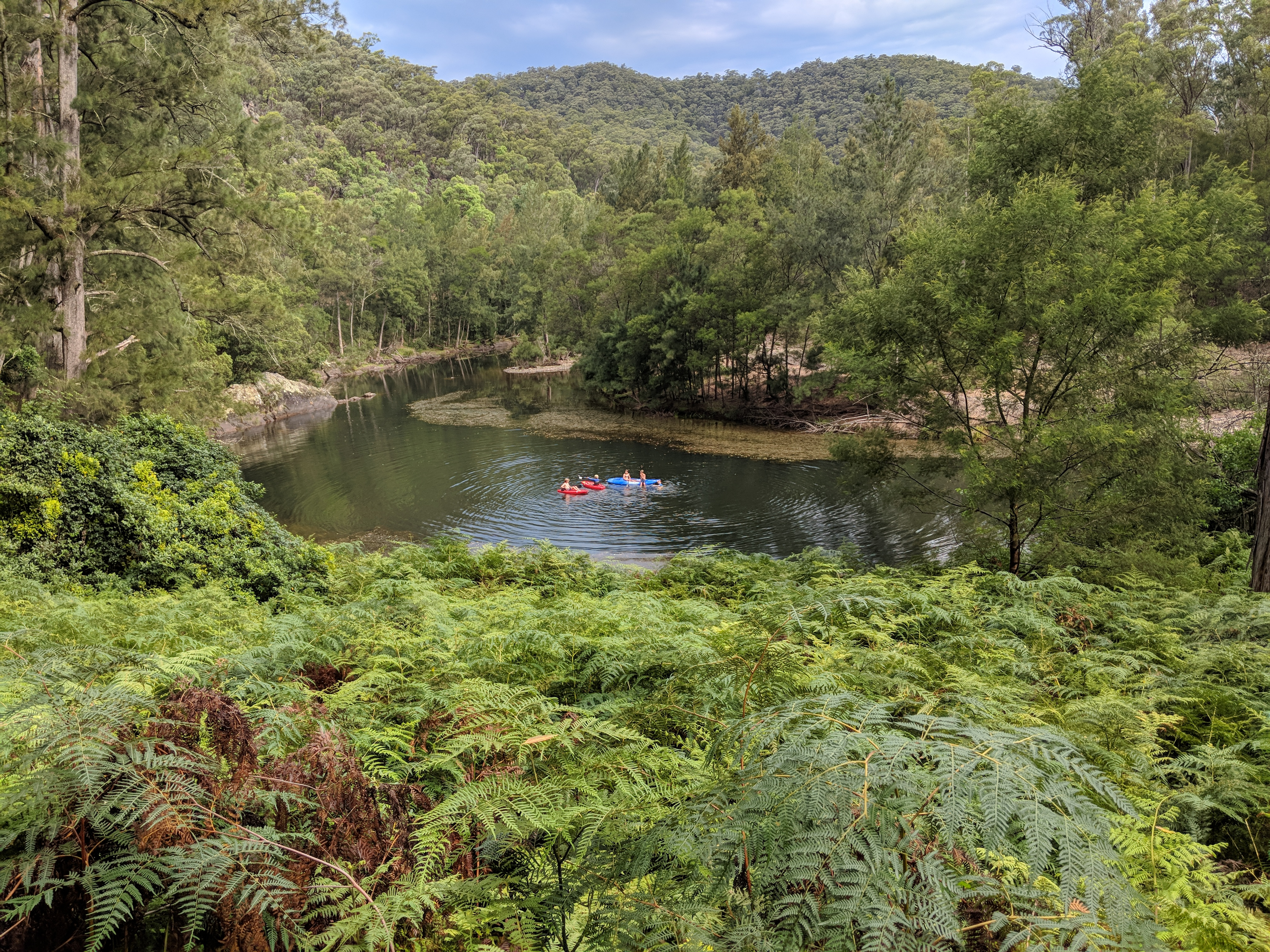 Canoes in the Deua River Valley